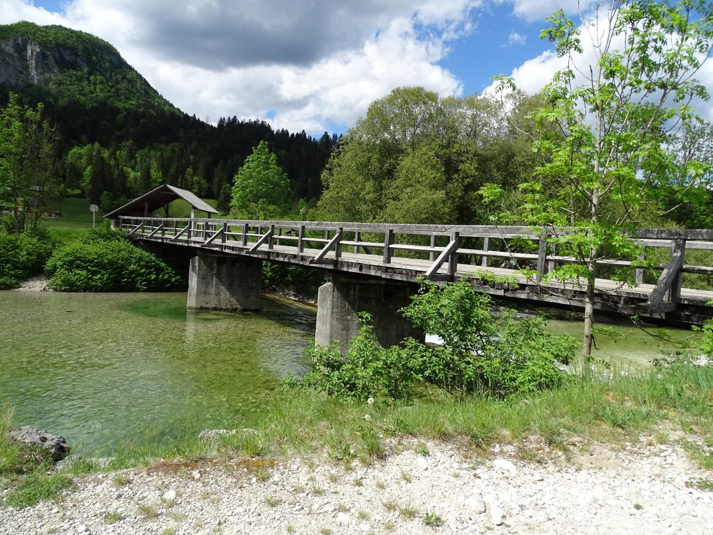 The bridge across the river Sava in Brod, Bohinj